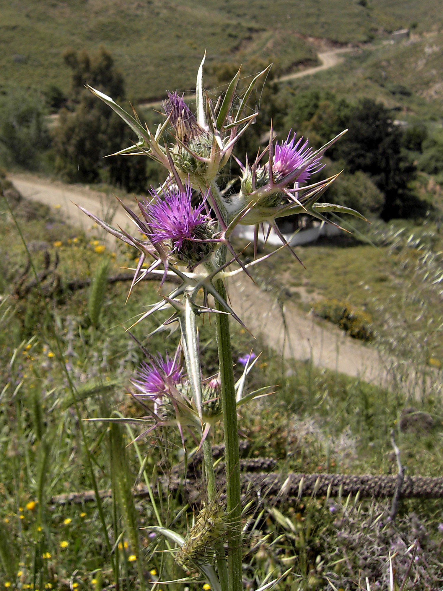 Syrian thistle from Crete